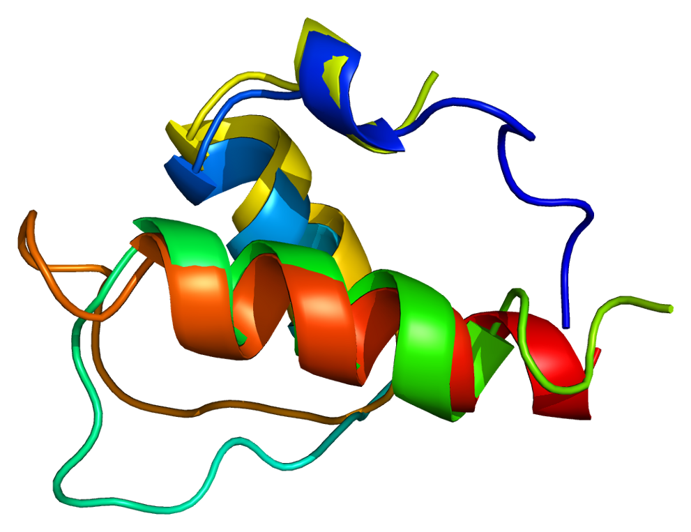 Structure of the TMPO protein. Based on PyMOL rendering of PDB 1gjj.